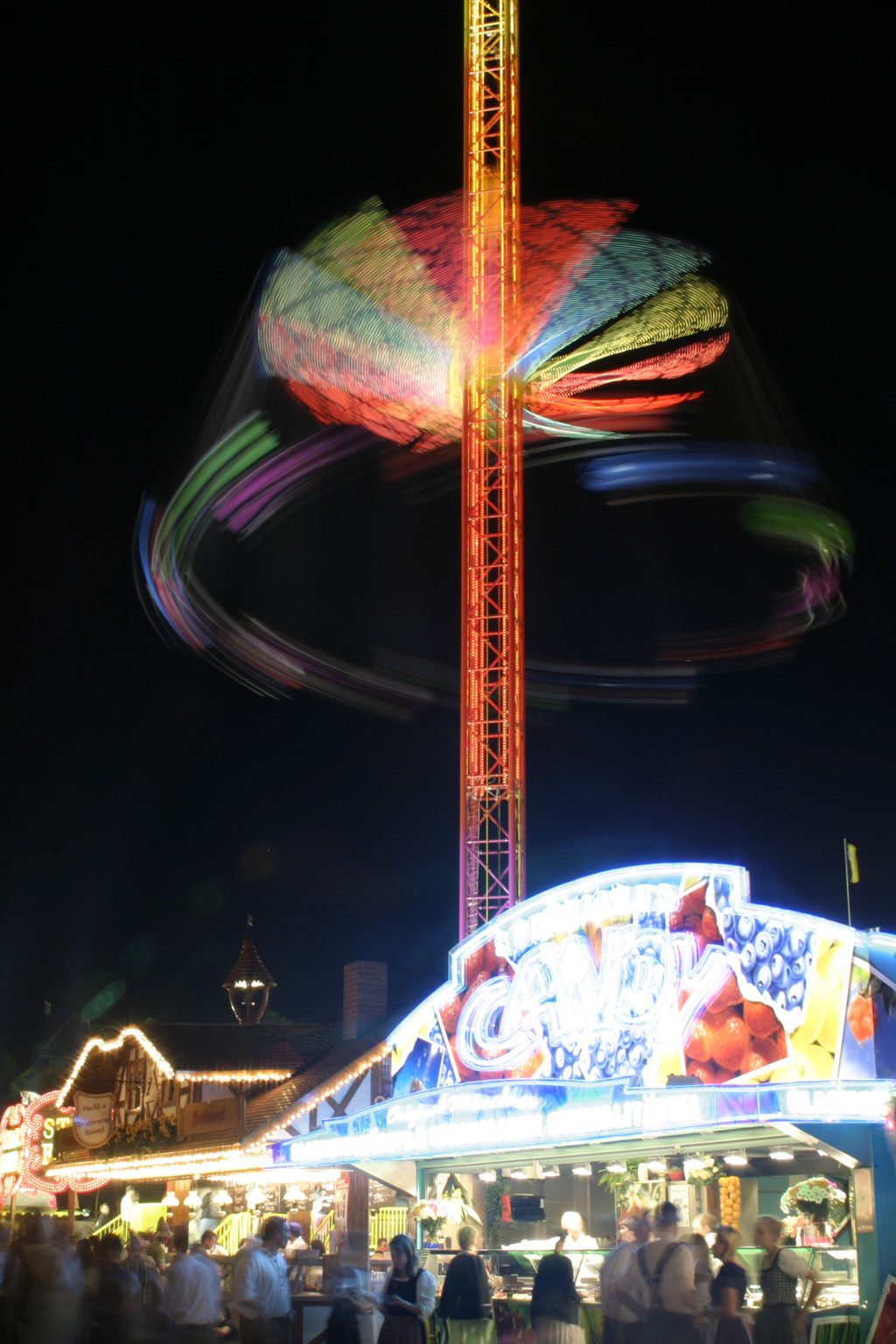 Oktoberfest München, Tower-chairoplane by night